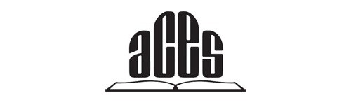 Official logo of Asociación Casa Editora Sudamericana (South american Asociation Publishing House)